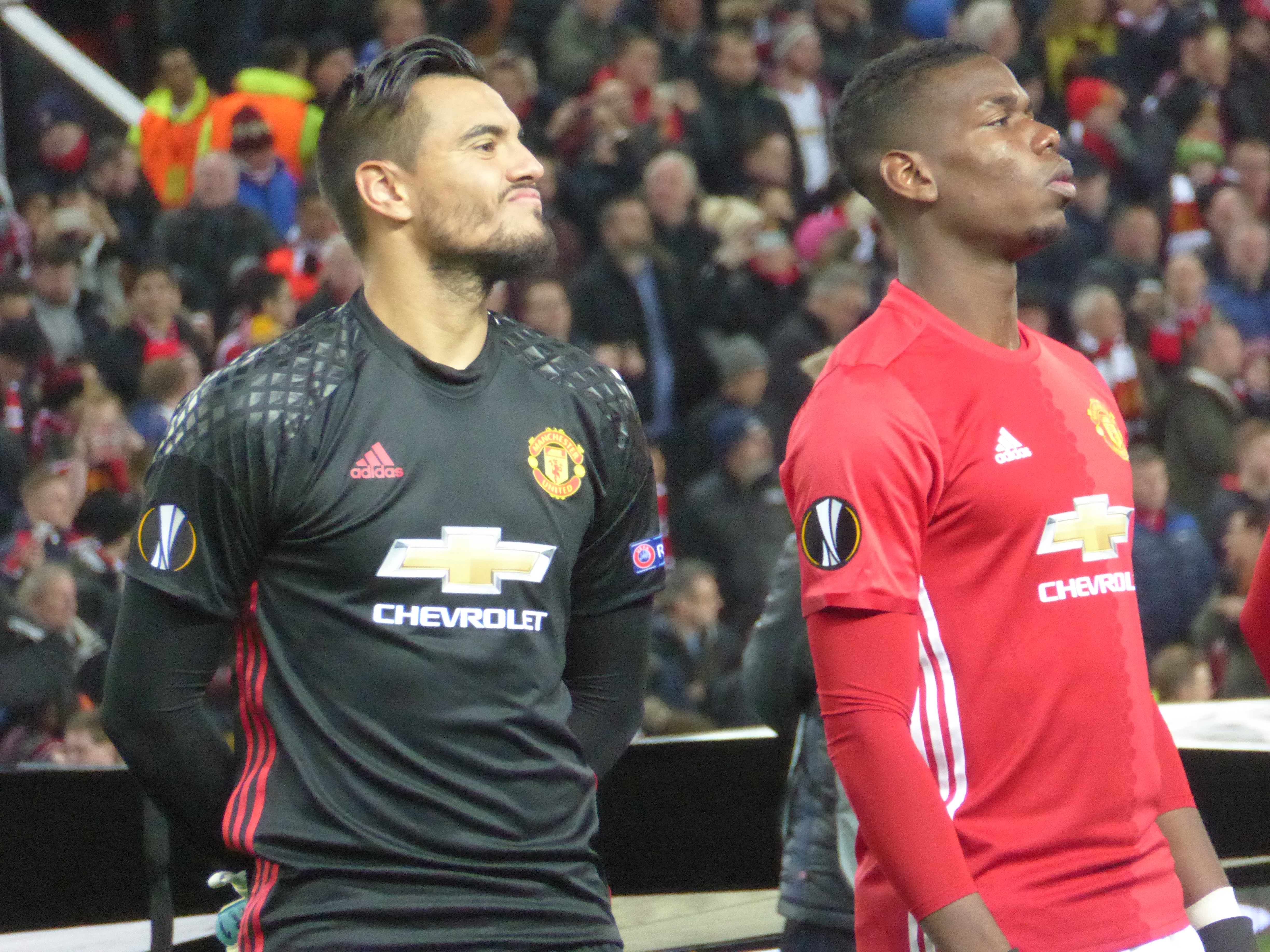 Manchester United v Feyenoord (4-0), Europa League, Old Trafford, Manchester, Greater Manchester, England, 24 November 2016